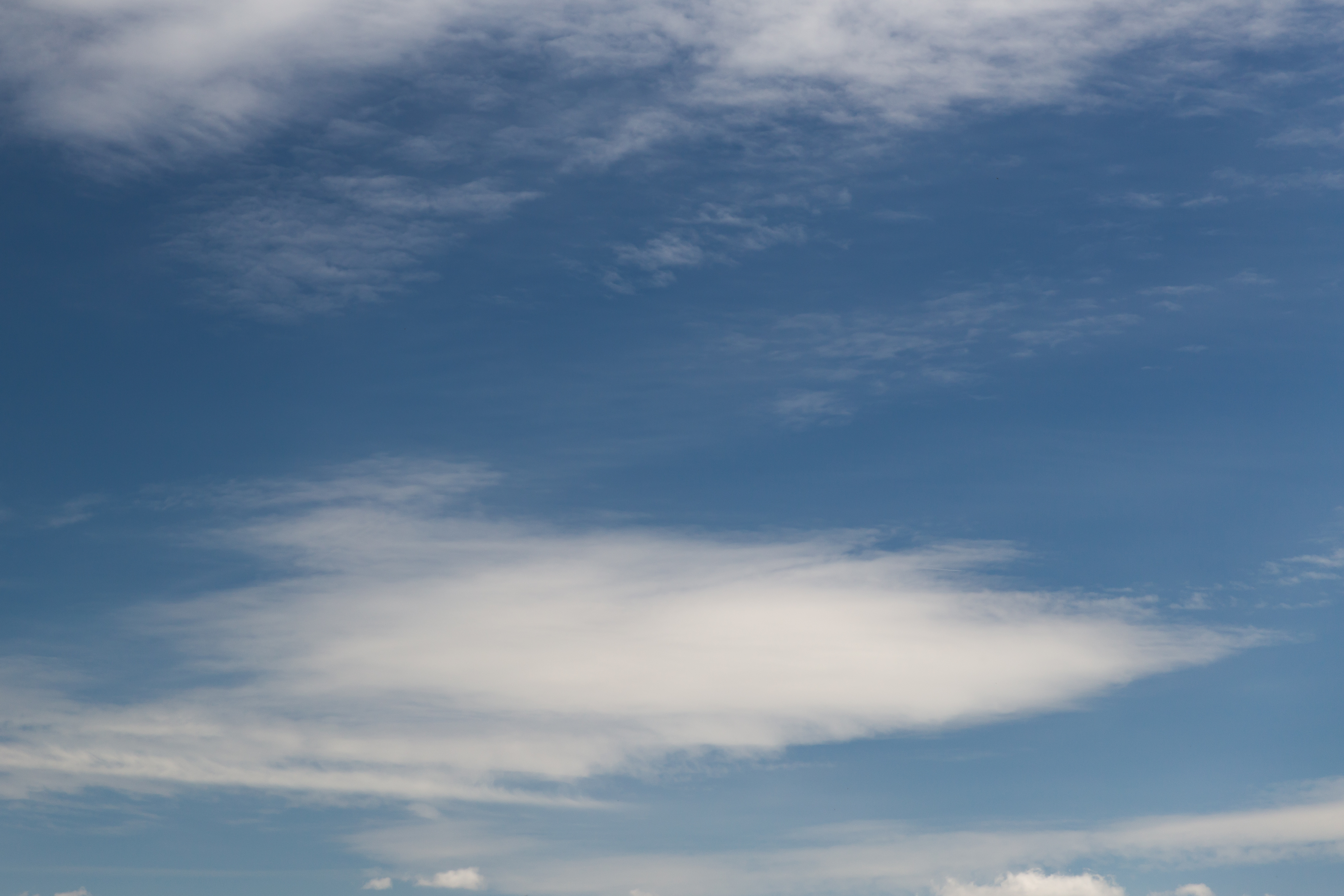 Altocumulus stratiformis cloud in Saint-Marcel-d'Ardèche, France.